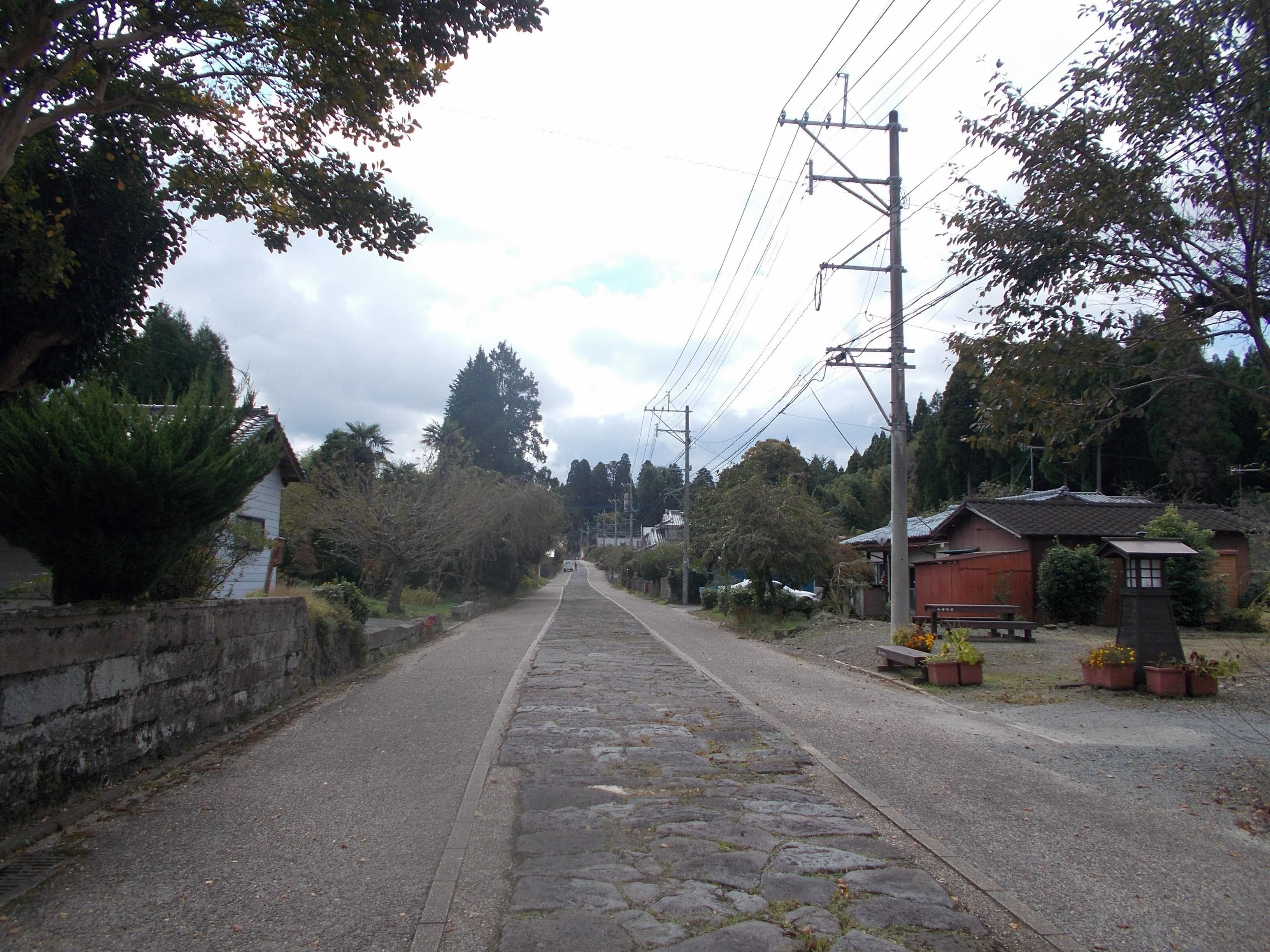 The Bungo running through Imaichi-shuku, Oita, Oita, Japan